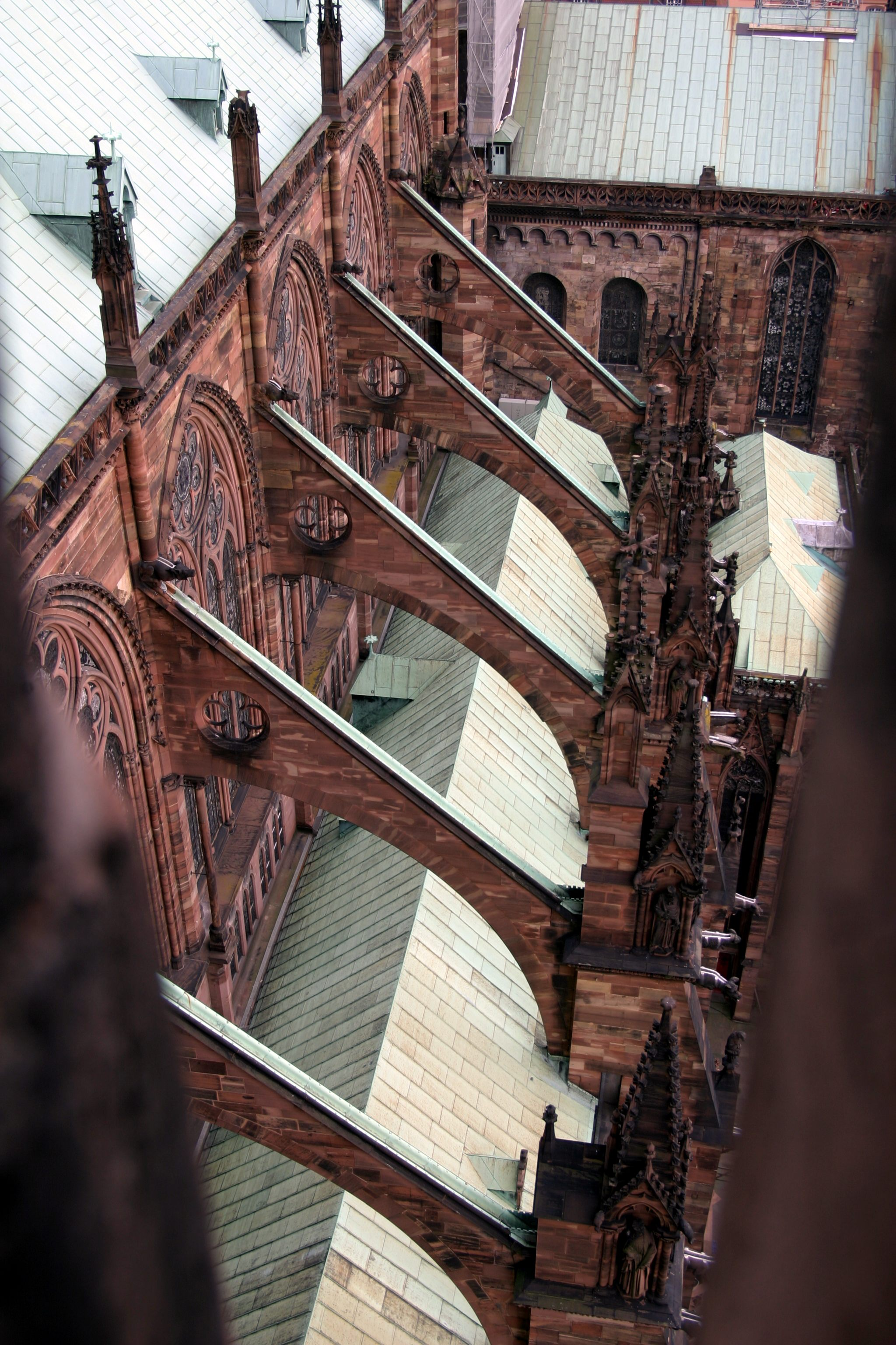 This image was taken at Strasbourg Cathedral, Strasbourg.